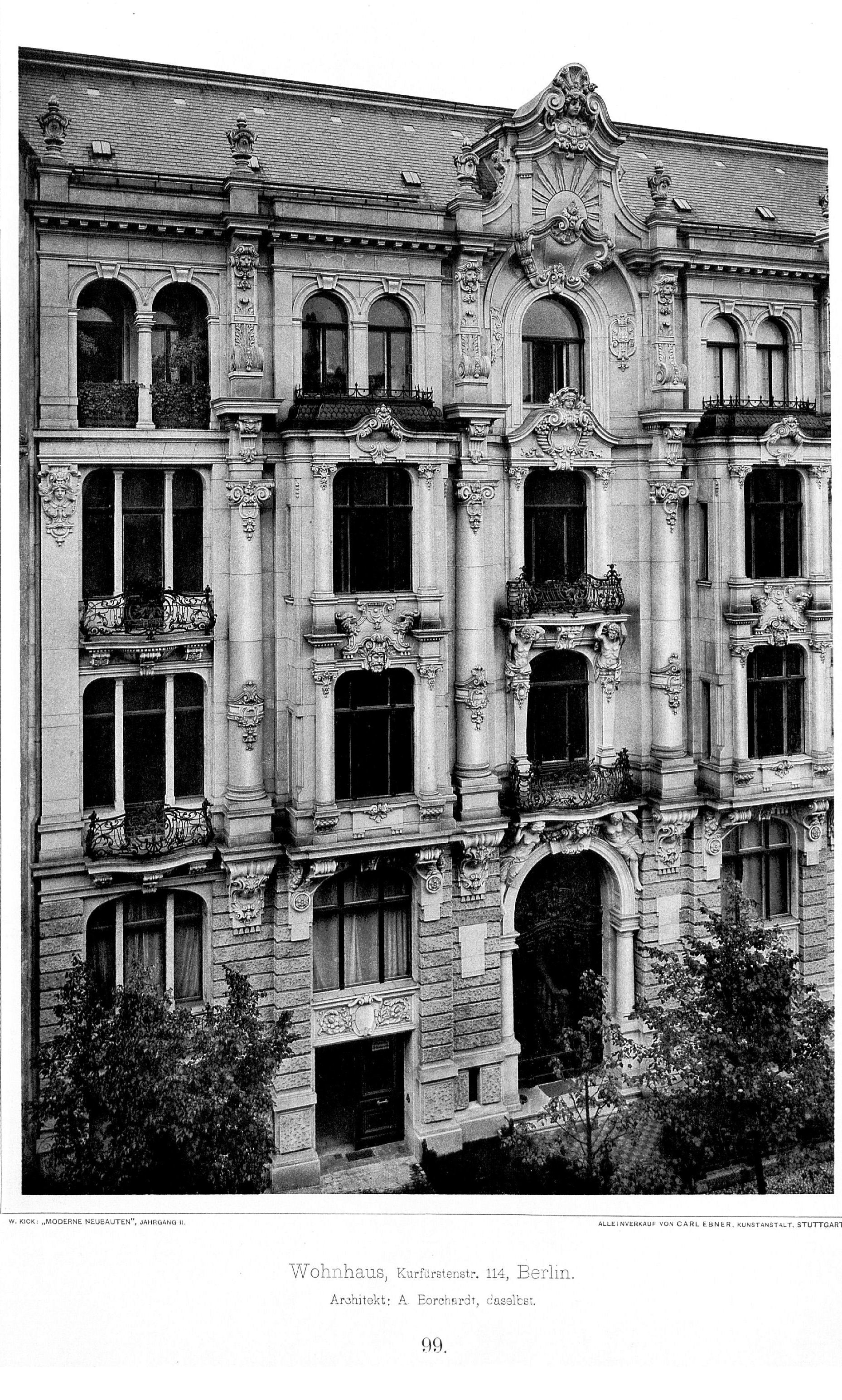 Wohnhaus_Kurfürstenstraße_114,_Haupteingang,_Berlin,_Architekt_A._Borchardt,_Berlin,_Tafel_100,_Kick_Jahrgang_II.jpg